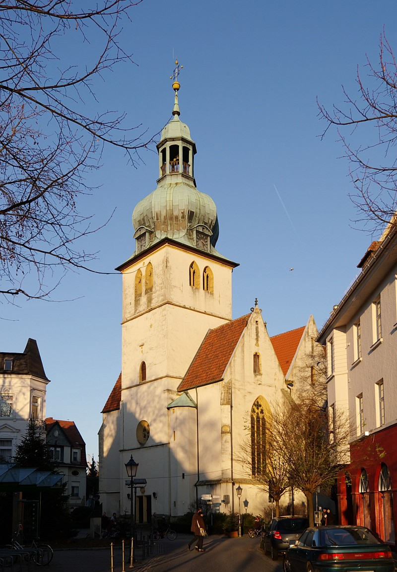 The Church of St. Jacobi in Herford, North Rhine-Westphalia, Germany. In the middleages the church was the meetingpoint for pilgrims on their way to Santiago de Compostela in Spain.